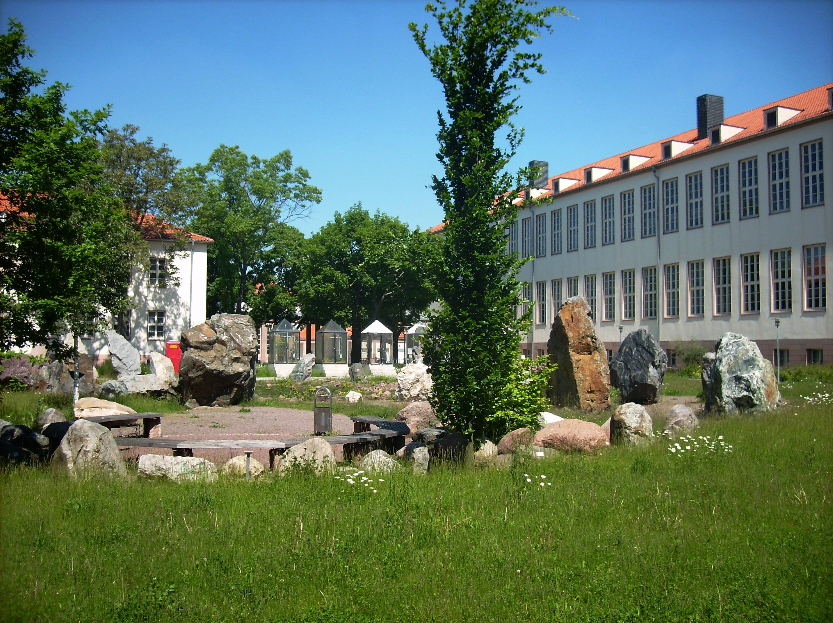 Geological Garden at the Institute of Geo Sciences of the University of Halle (Saale)